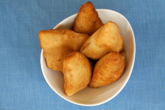 Mandazi from Nairobi, Kenya July 20, 2009. Photo by Bacardi (Flickr) Attribution required